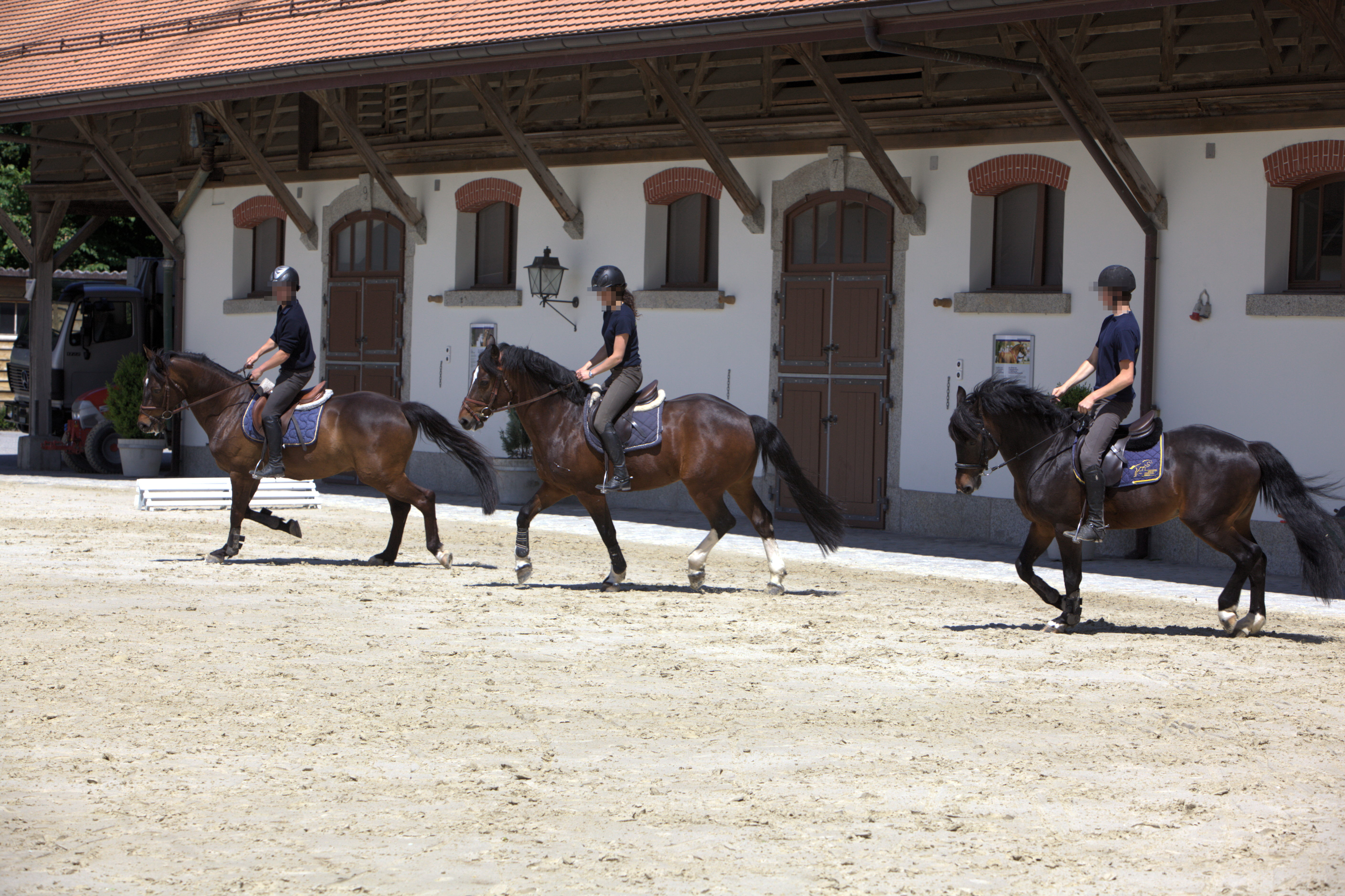 Swiss national stud far, Avenches The making of this document was supported by Wikimedia CH. (Submit your project!) For all the files concerned, please see the category Supported by Wikimedia CH.